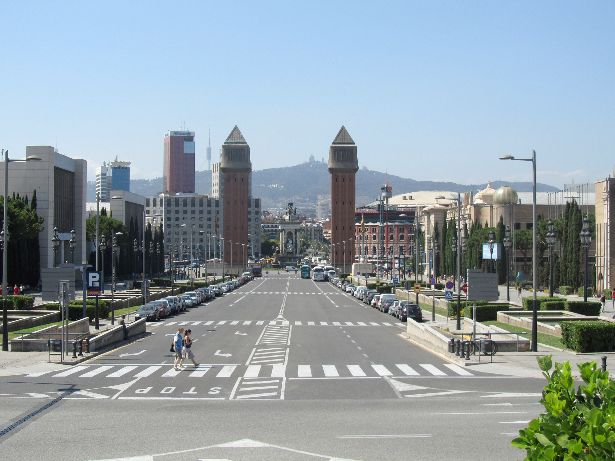 Avinguda de la Reina Maria Cristina (Barcelona).